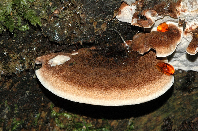 Ischnoderma benzoinum from Commanster, Belgium. The determination of the species shown in this picture has been verified.